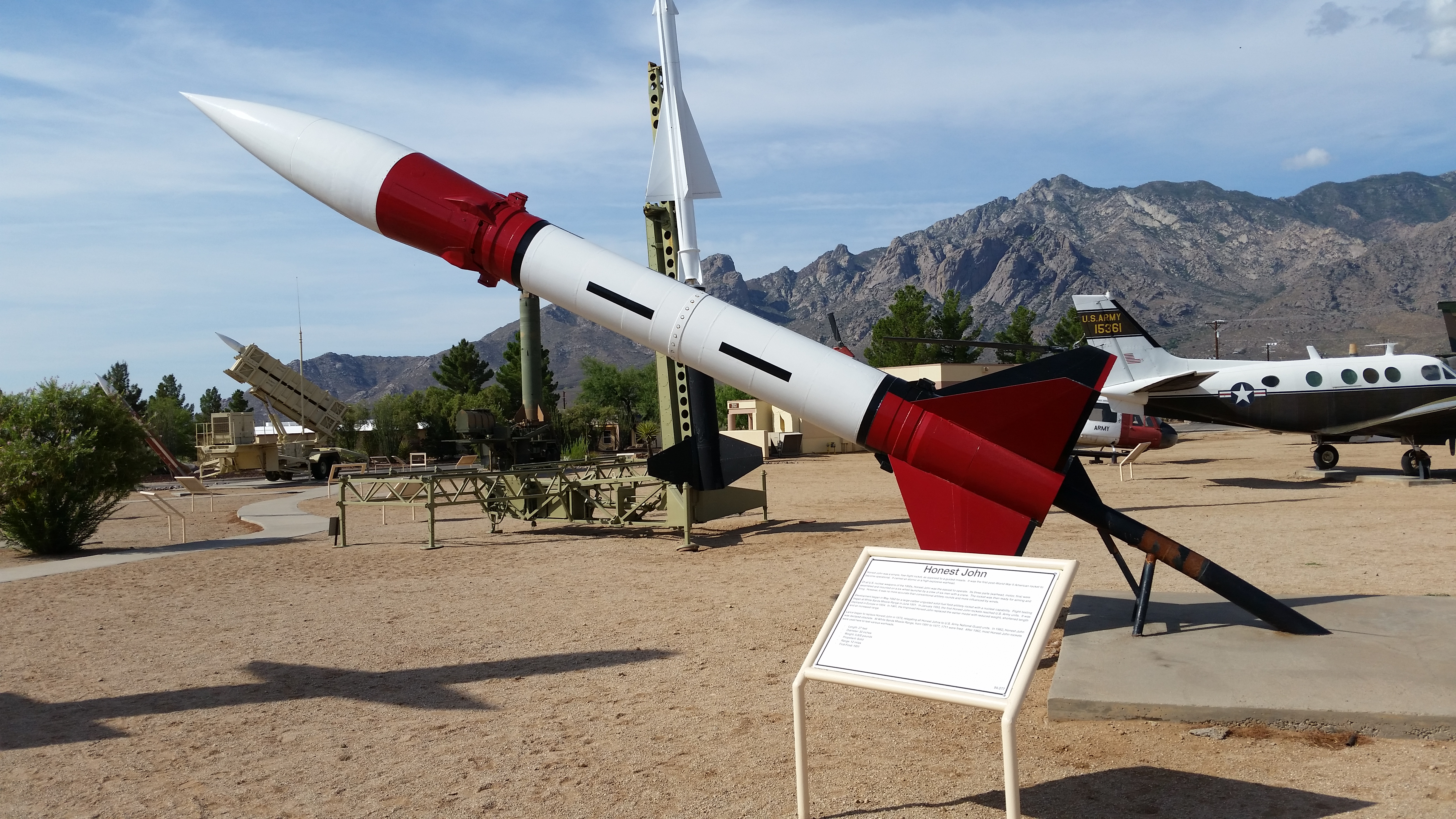 White Sands Missile Range Museum Honest John display